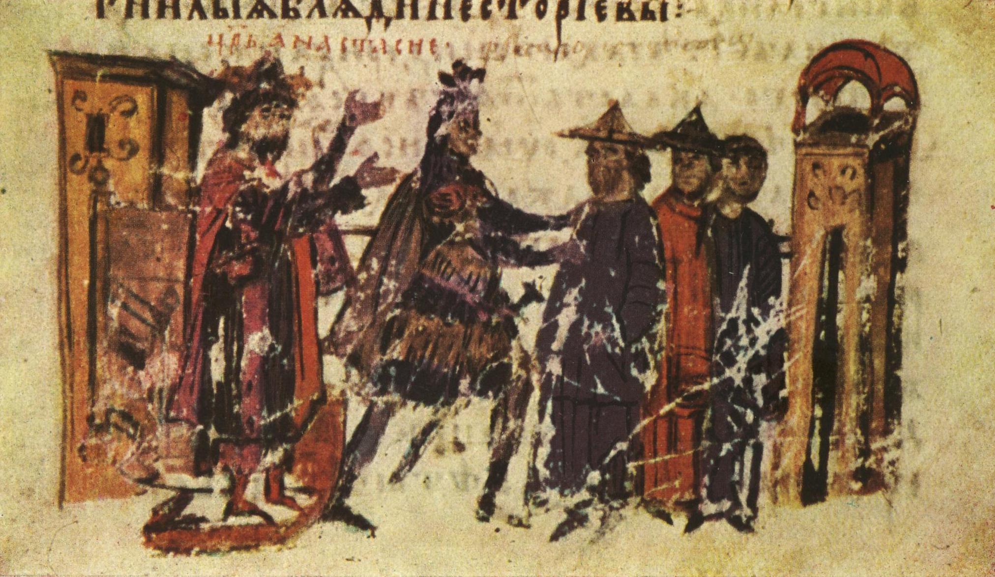 Miniature 37 from the Constantine Manasses Chronicle, 14 century: Persecution of heretics during the reign of emperor Justin I.